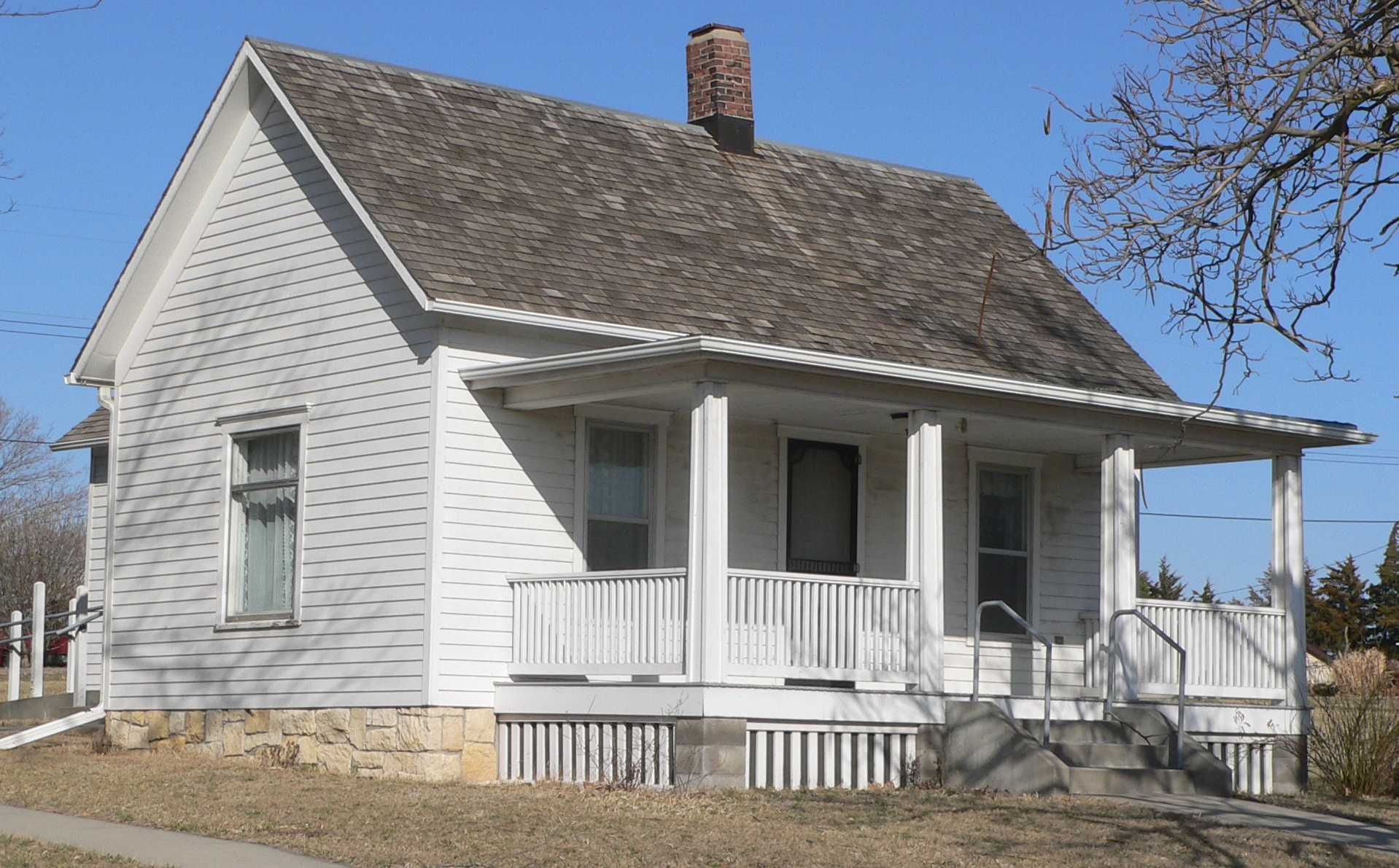 Birthplace of Harold Lloyd in Burchard, Nebraska; seen from the southeast.